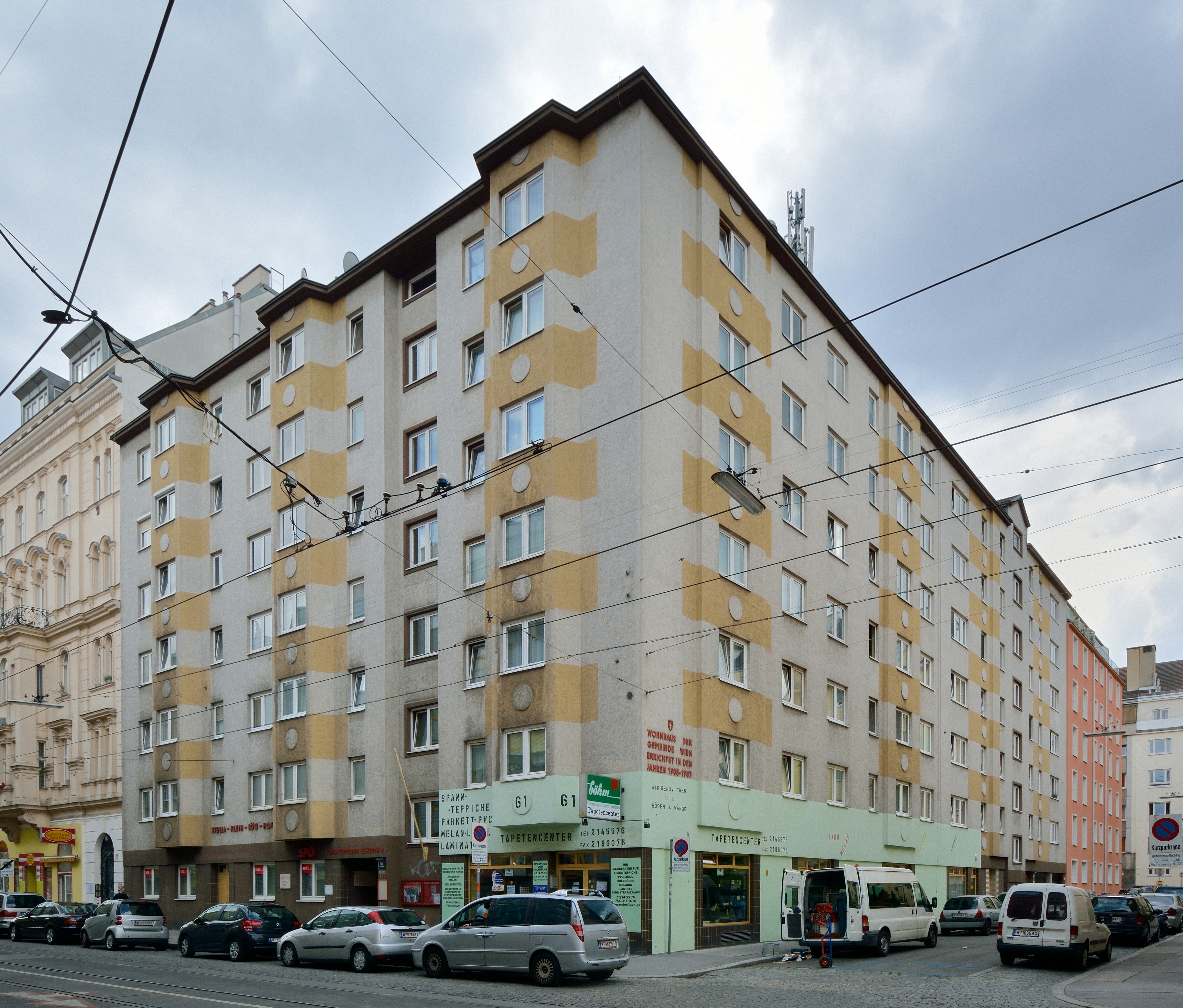 Community residential building Stella-Klein-Löw-Hof, Pfeffergasse 4-6, 2nd district of Vienna